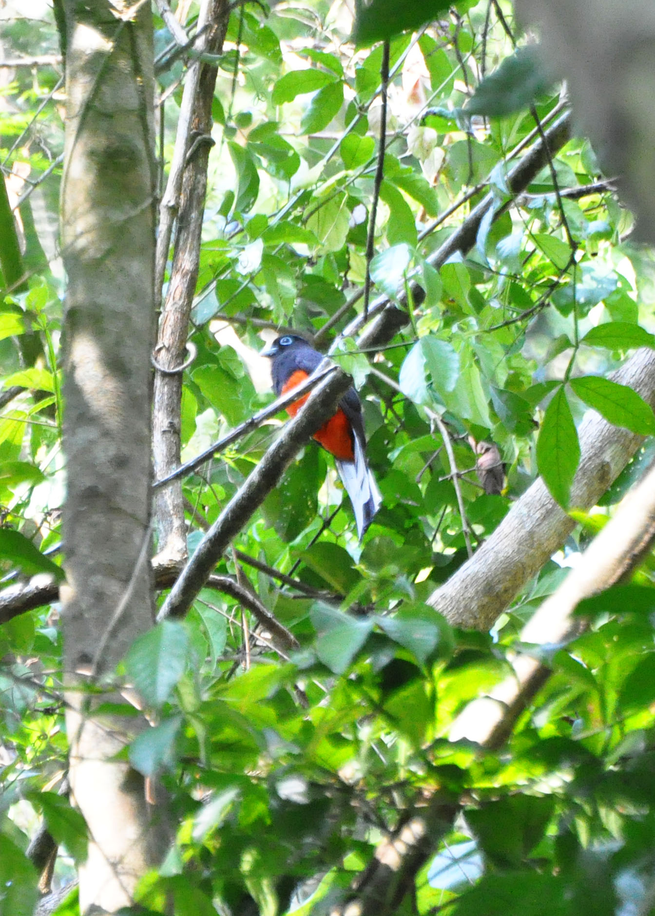 Trogon bairdii Carara Nat. Park, Costa Rica 27-Mar-12